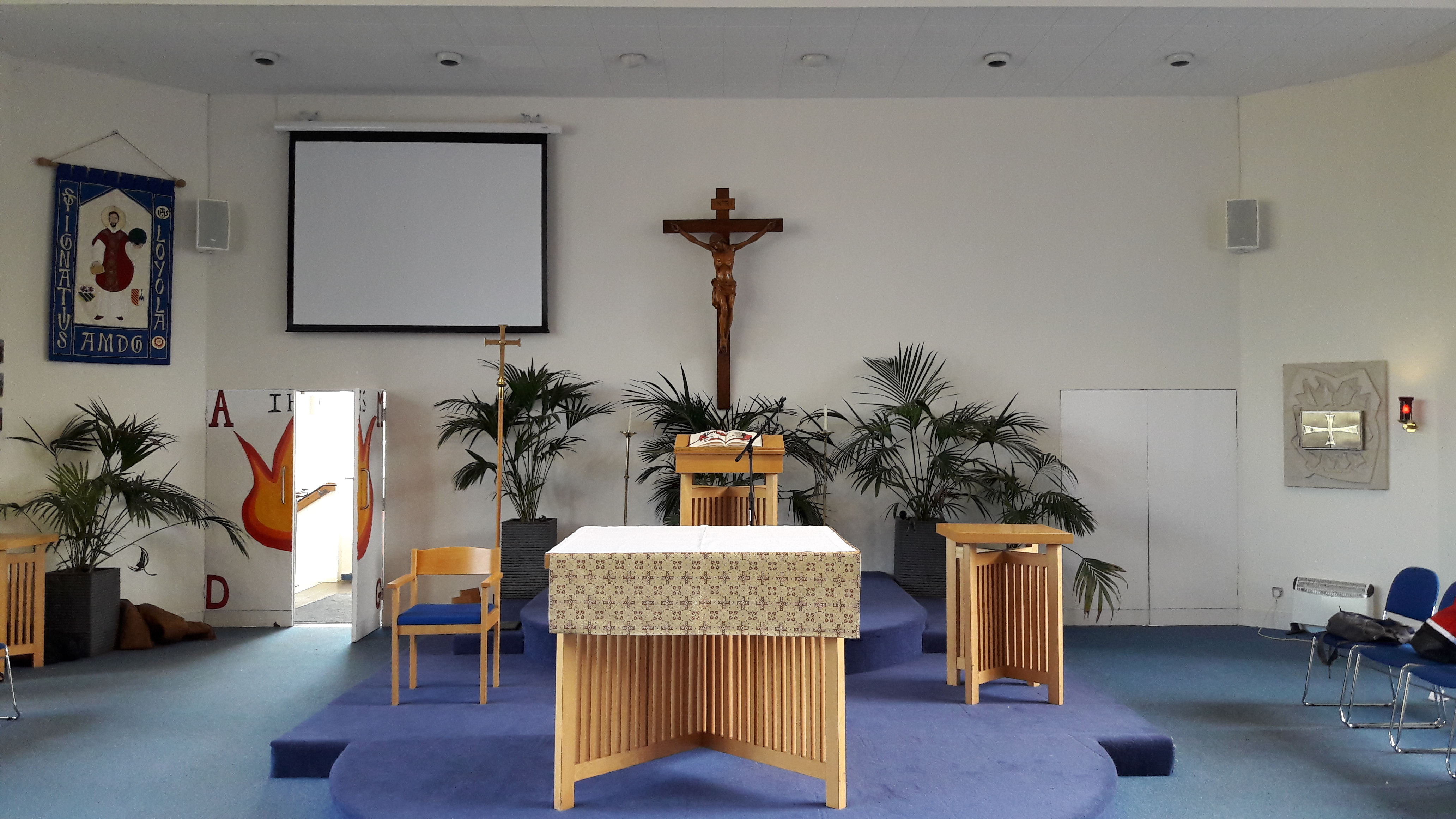 St Ignatius College, a Jesuit school in Enfield, London